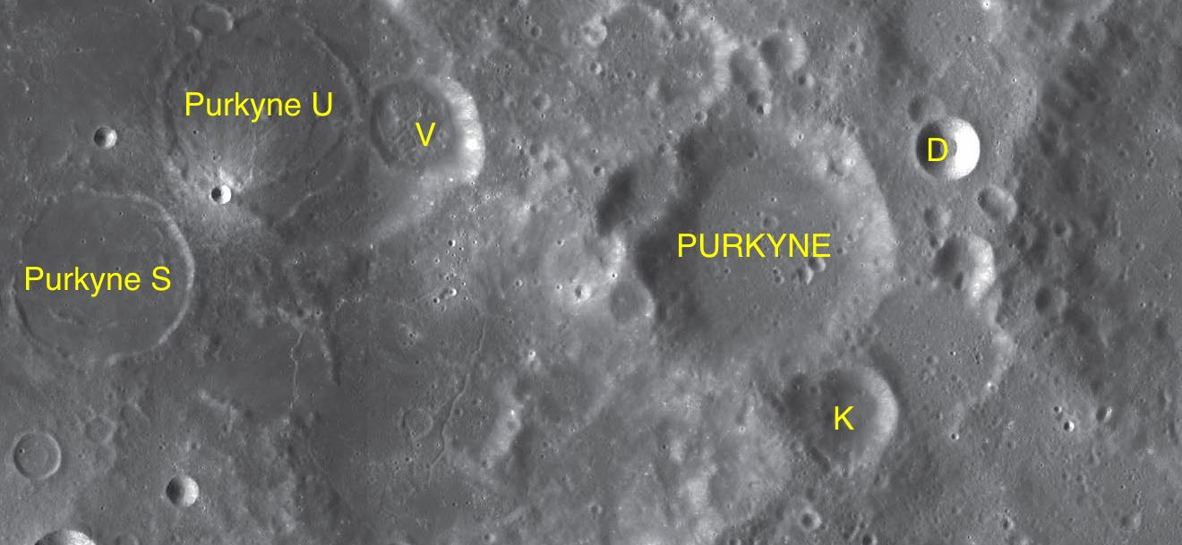 Part of the chart LAC-82 used for the presentation